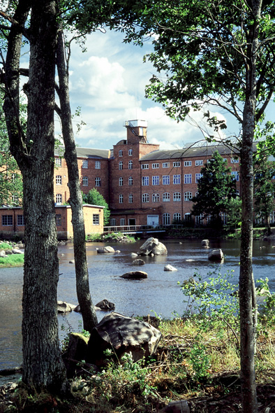 Vad Mill, former textile factory, at the river Tidan, Tidan, Västergötland, Sweden.